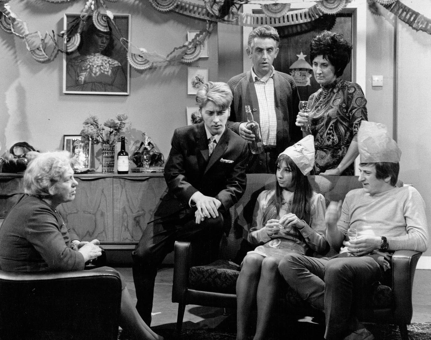 STV Cowcaddens. Studio A - 'High Living'